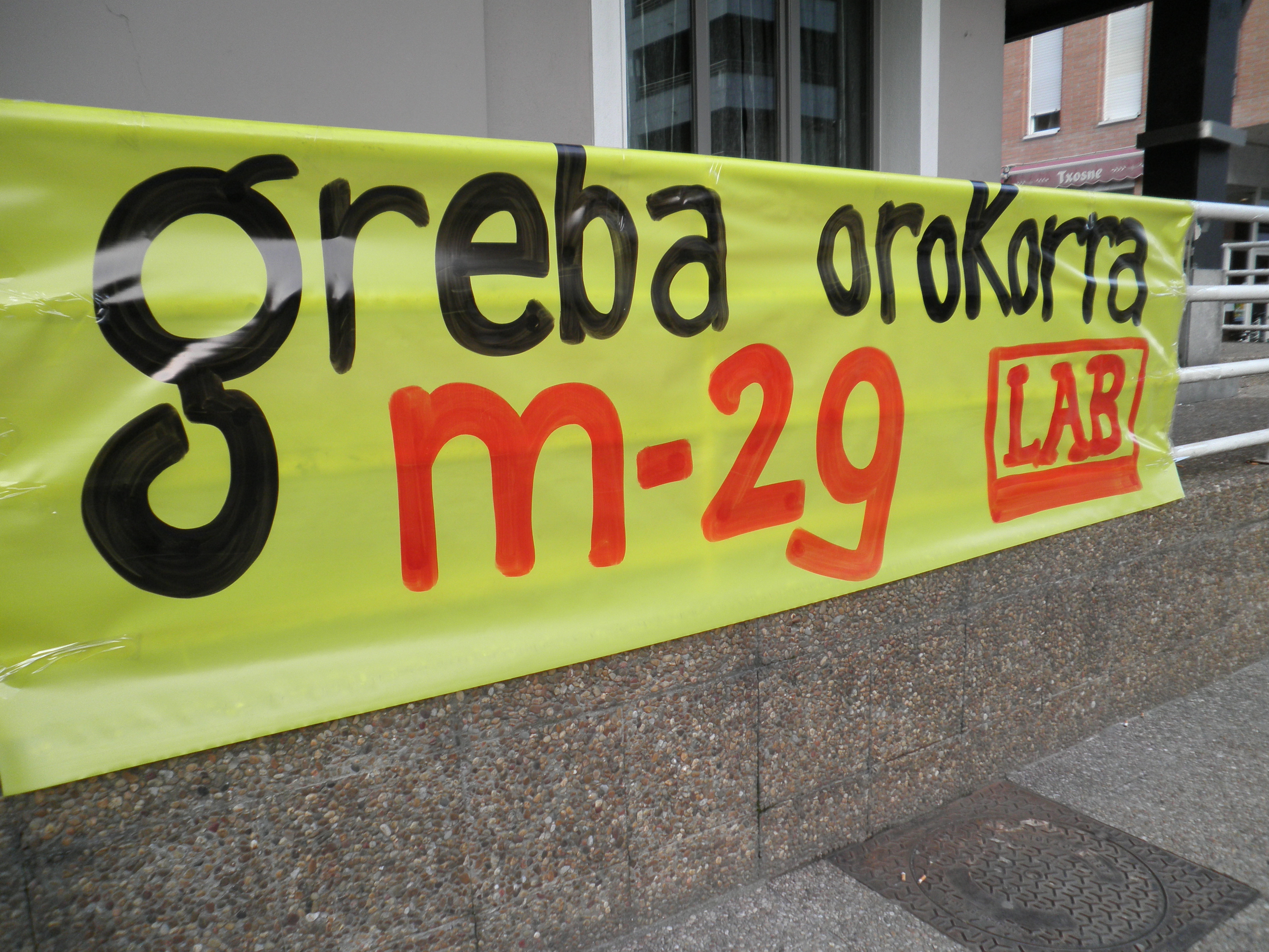 Banner calling for general strike in 2012-03-29 against working law reform in Spain. LAB trade union.